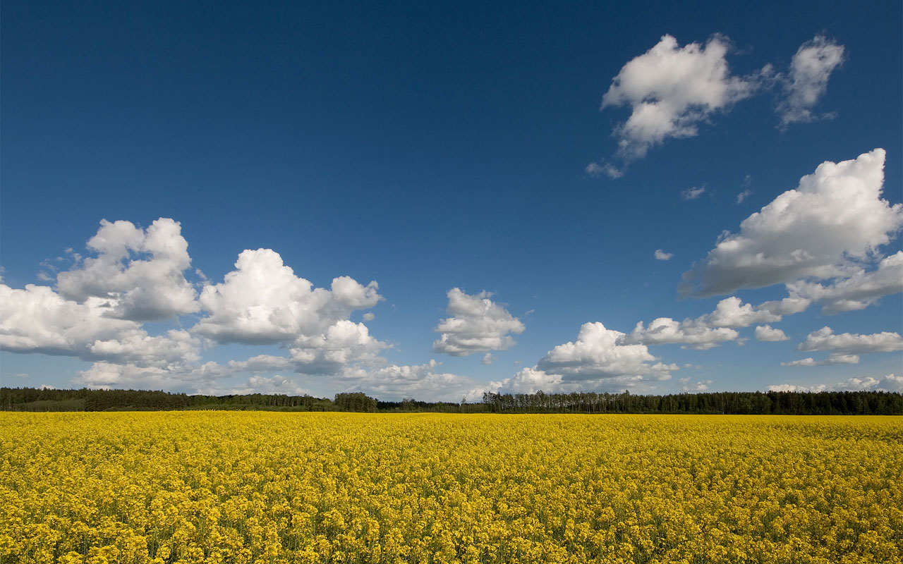 Flowering raps field near Abolini